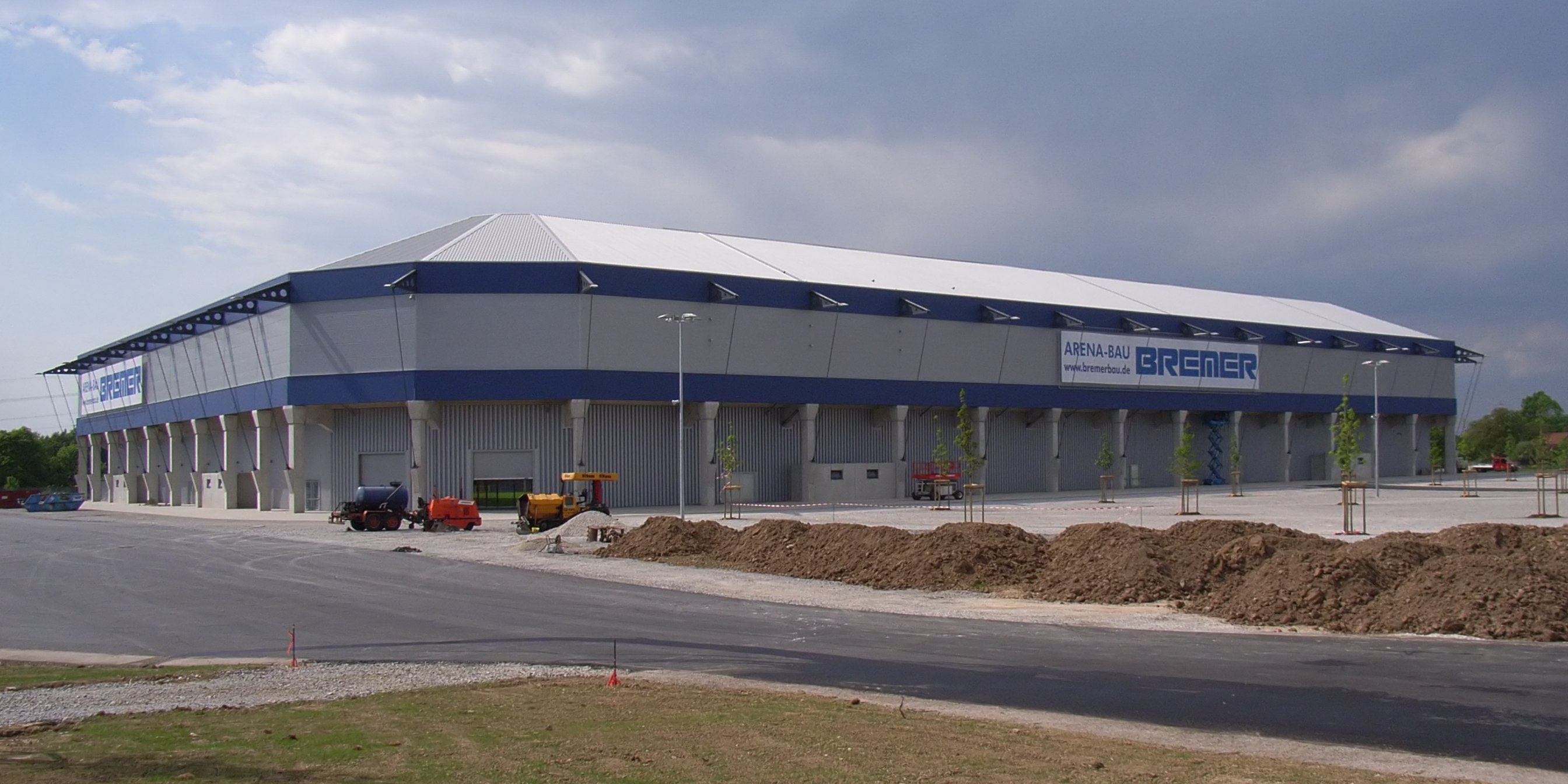 Paderborn, Germany: paragon arena (2009–2012: Energieteam Arena; since 2012: Benterler-Arena).